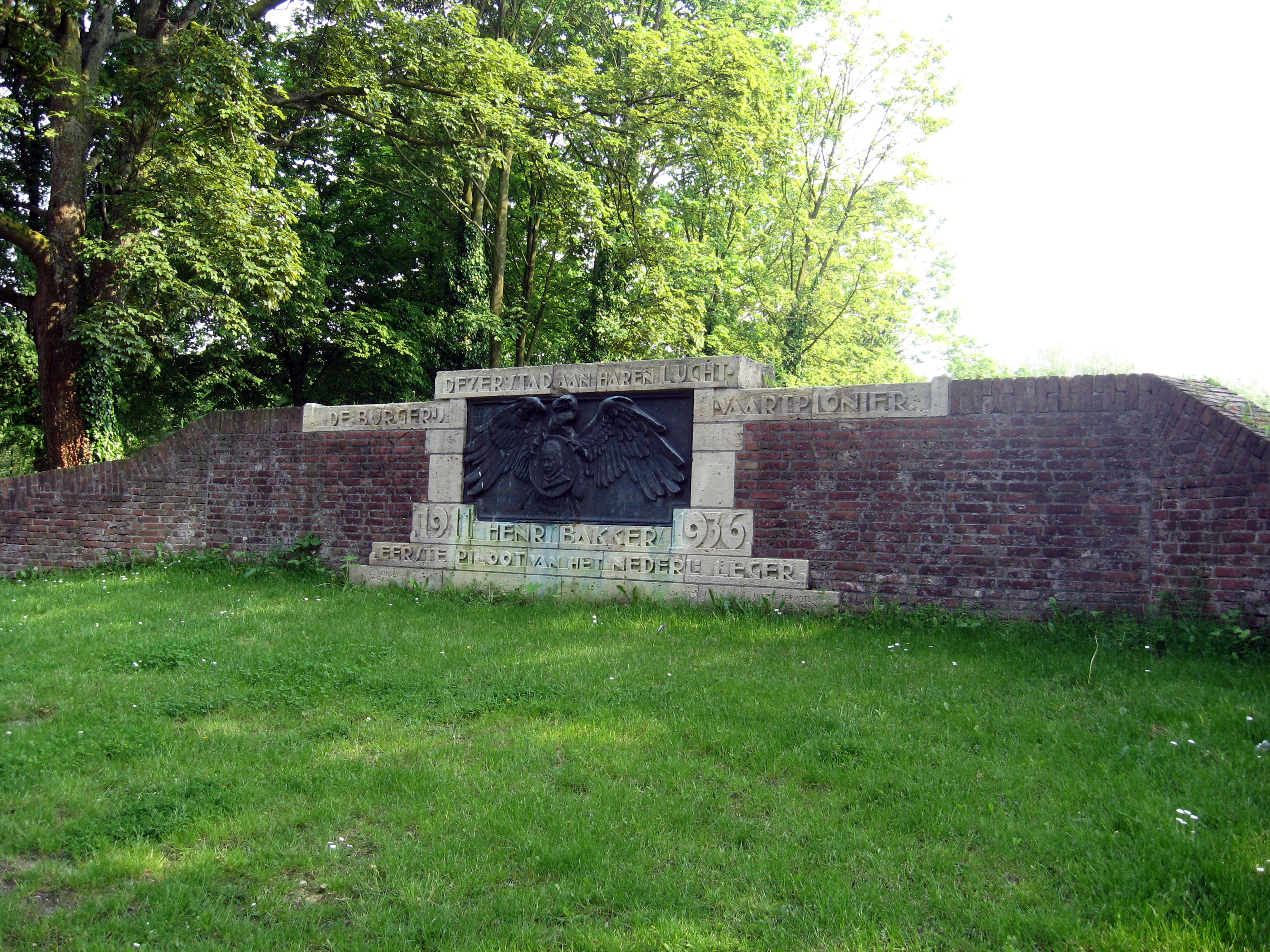 Henri Bakker Memorial